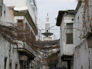 Amara District in old Damascus, Syria.